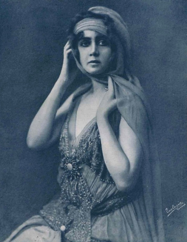 photo from the magazine L'arte muta, N.1, 1916